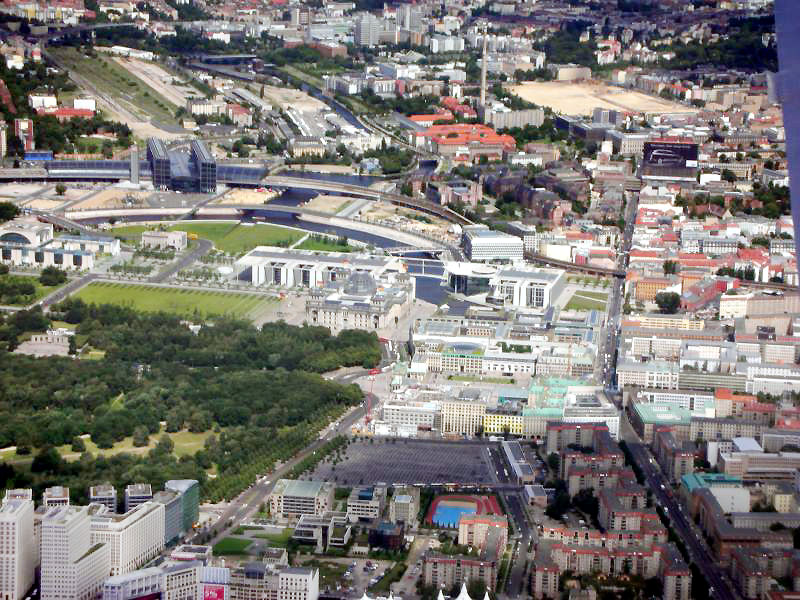 Areal view of Berlin-Mitte with: Berlin Hauptbahnhof (Berlin Central Station) Museum für Naturkunde (Humboldtmuseum) Spreebogen und Humboldthafen (River Spree with Humbold-Harbour) Kunsthalle Hamburger Bahnhof (Arthall Hamburg Station) Charité Krankenhaus (Charité hospital) Reichstagsgebäude (Reichstagbuilding) Bundeskanzleramt (German Chancellery) Schweizer Botschaft (Swiss Embassy) Paul-Löbe-Haus & Marie-Elisabeth-Lüders-Haus (Abgeordnetenhäuser) Teile des Tiergartens (Parts of Tiergarten park) Sowjetisches Ehrenmal (Tiergarten) (Soviet War Memorial) Brandenburger Tor am Pariser Platz (Brandenburg Gate at Pariser Platz) Hotel Adlon Britische Botschaft (British Embassy) Botschaft der USA (USA Embassy) Boulevard Unter den Linden (zum Teil) (parts of Boulevard Unter den Linden) Holocaust-Mahnmal (Holocaust-Memorial) Reichskanzlei und Führerbunker (Reich Chancellery and Führerbunker) Beisheim-Center am Potsdamer Platz und Leipziger Platz (zum Teil) (part of Potsdamer Platz and Leipziger Platz)